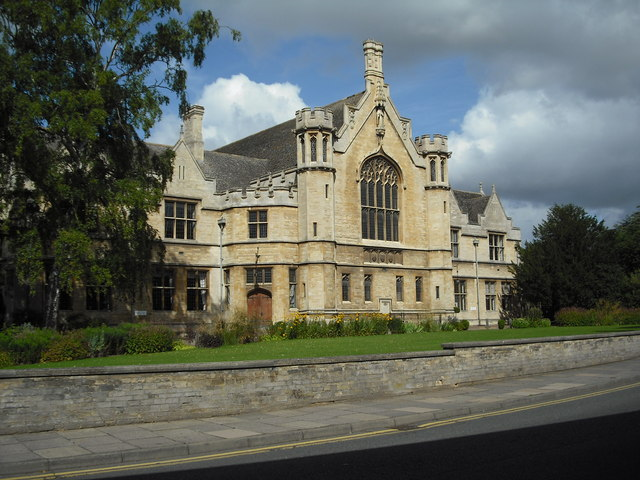 Great Hall: Oundle School School buildings dating from the 17thC to the present day are found throughout the town.